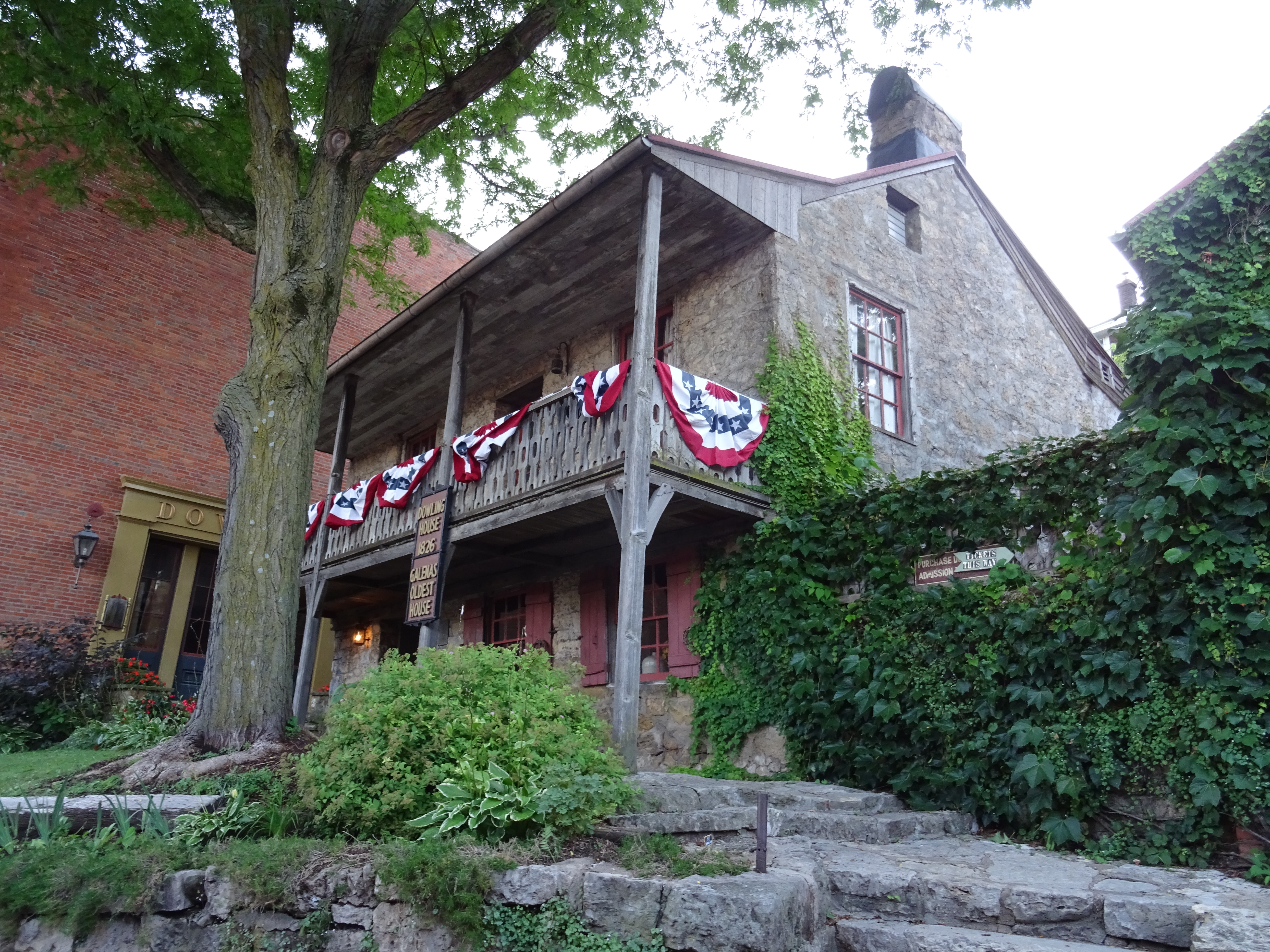 Dowling House erected 1832.